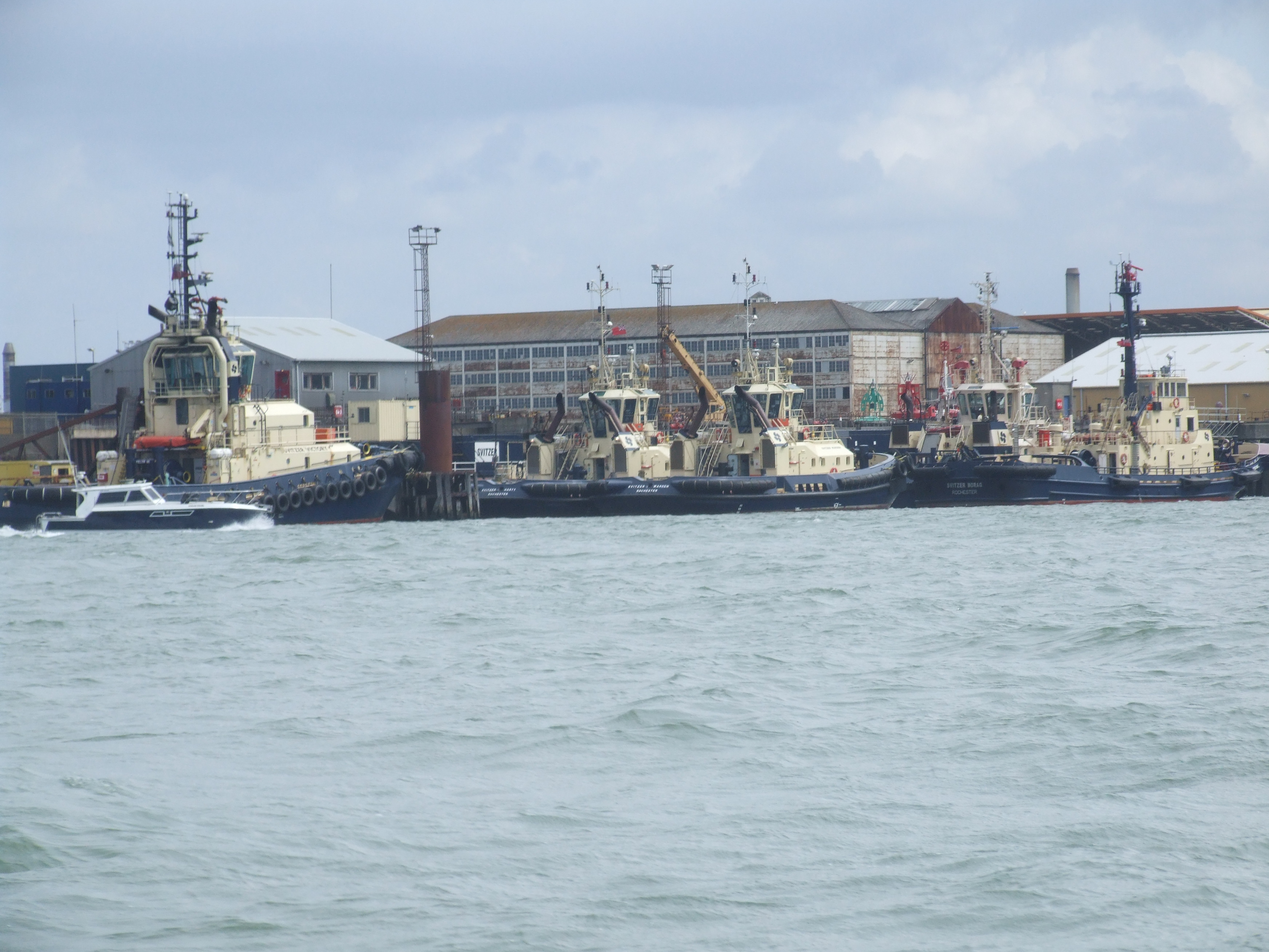 At Sheerness the River Medway joins the Thames estuary. Sheerness lies on the Isle of Sheppey This image was taken from aboard the PS Kingswear Castle. Svitzer Tugs at Sheerness